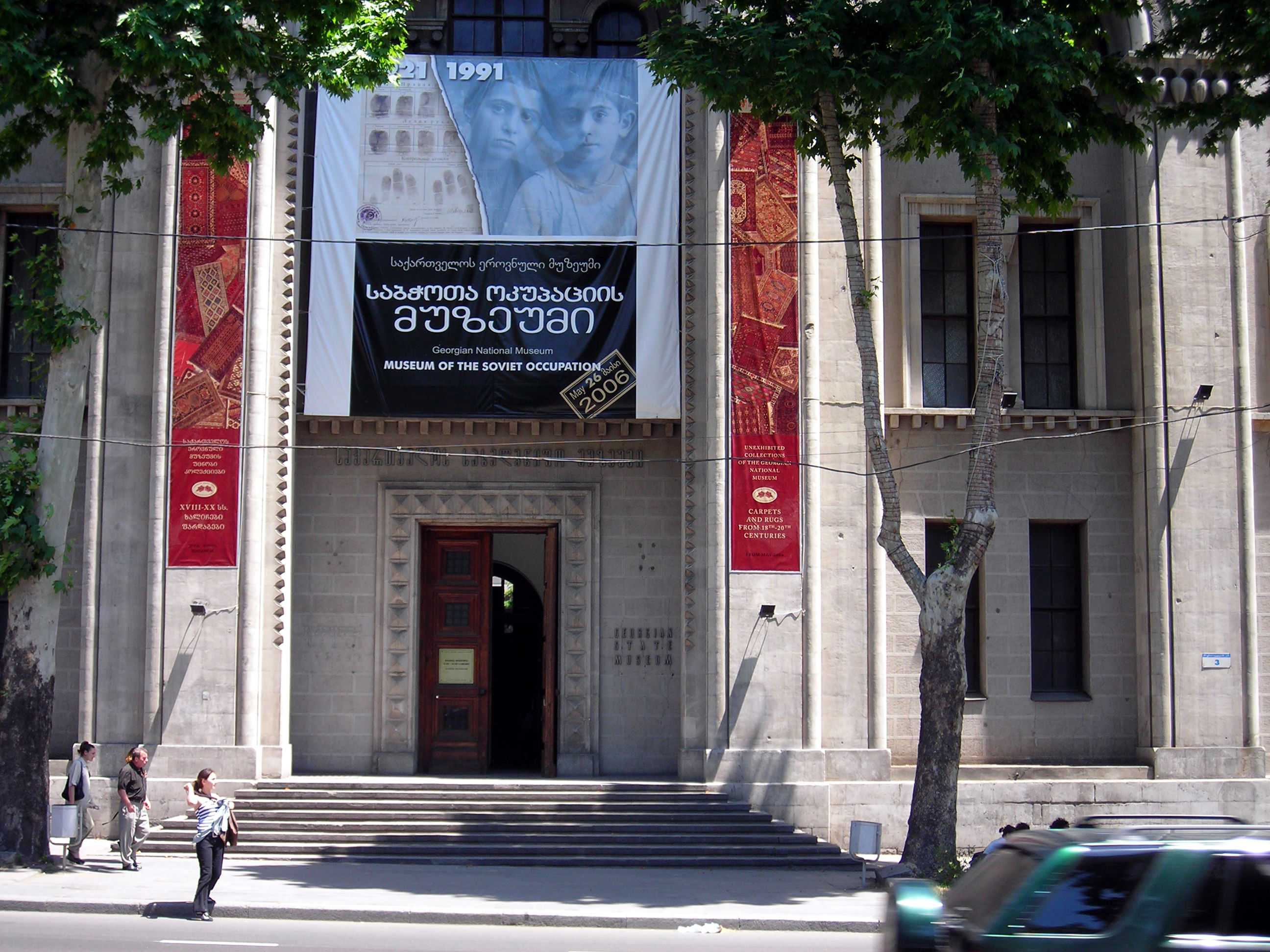 Museum of the Soviet period. Closed.